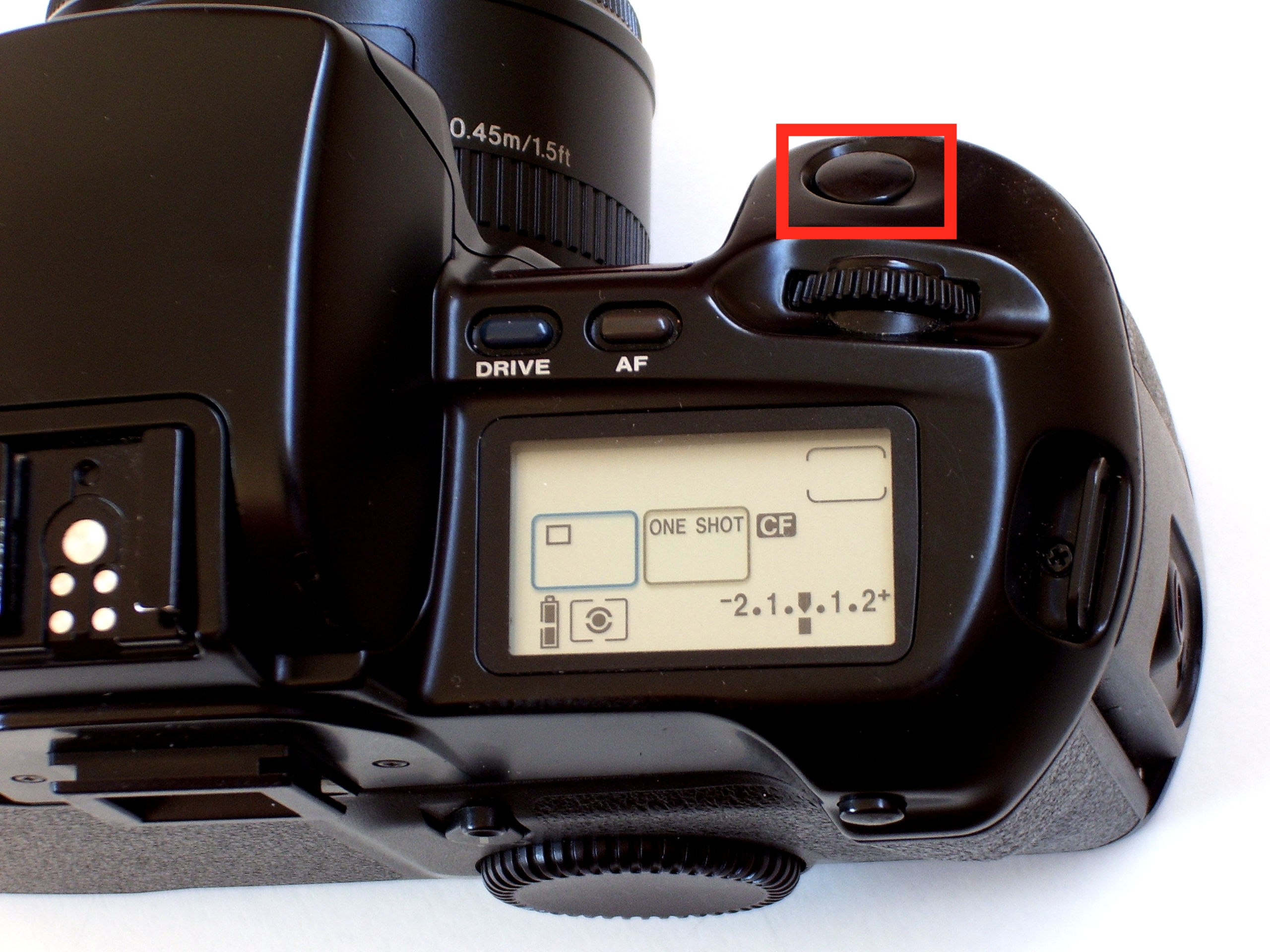 Canon EOS 100 top right, showing LCD Panel, Autofocus Button, Drive Button, Main Dial and Shutter Button (in the red frame).